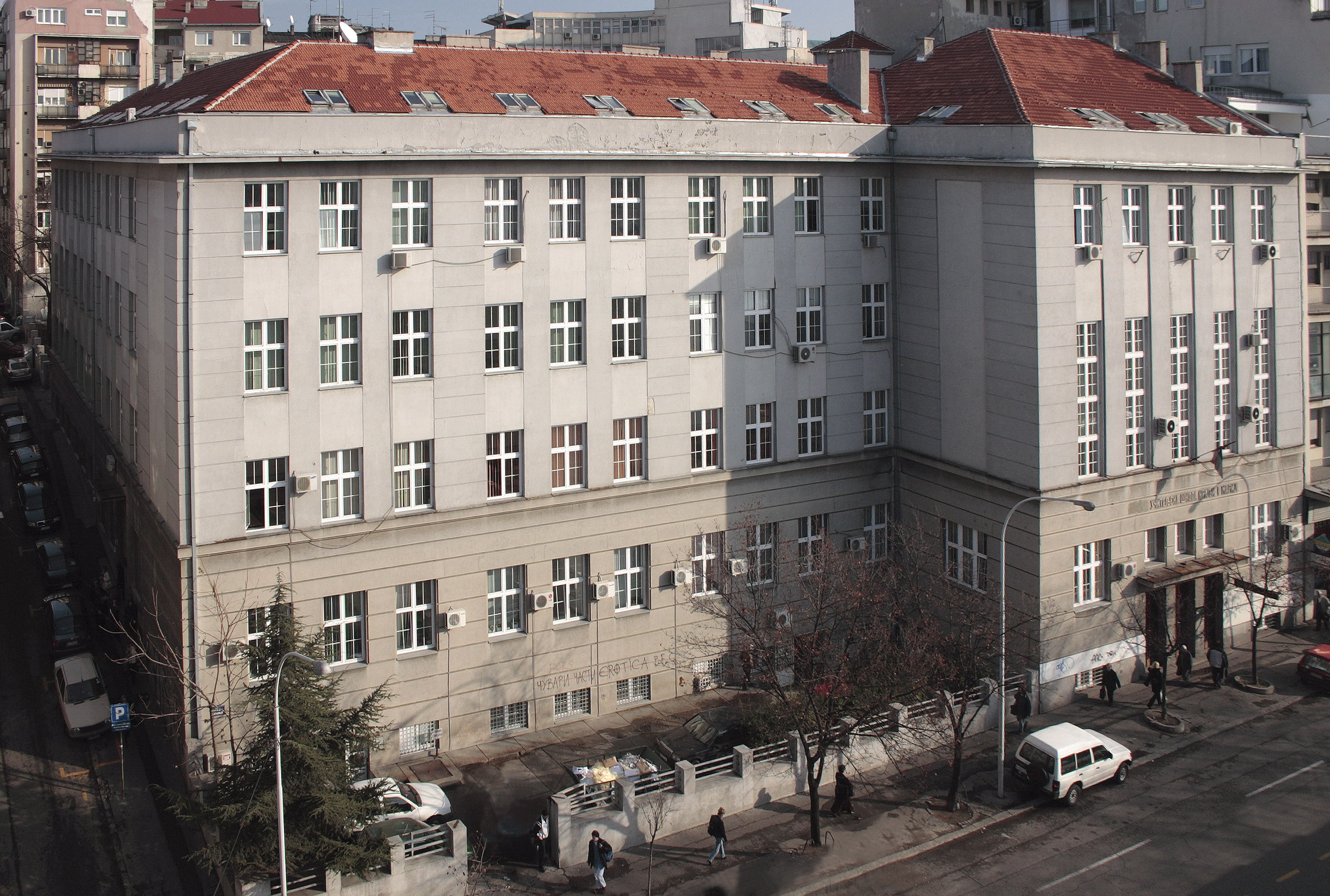 Teacher Faculty Belgrade building